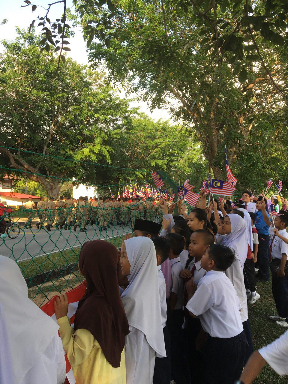 Larian Merdeka Anggota Tentera 1